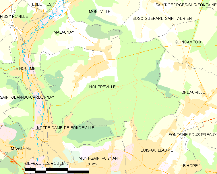 Map of French municipality Houppeville